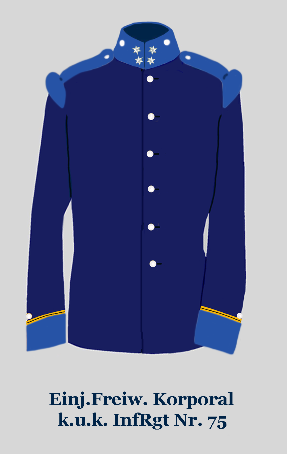 Corporal (one year volunteer service) of the k.u.k. german 75th Infantry Regiment (Collar light-blue, buttons white)